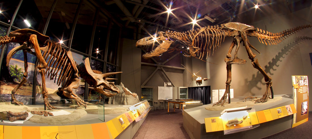 T.rex and Triceratops skeletons in the Adaptation Gallery: Geologic Time. North Dakota Heritage Center & State Museum, Bismarck, North Dakota, USA.